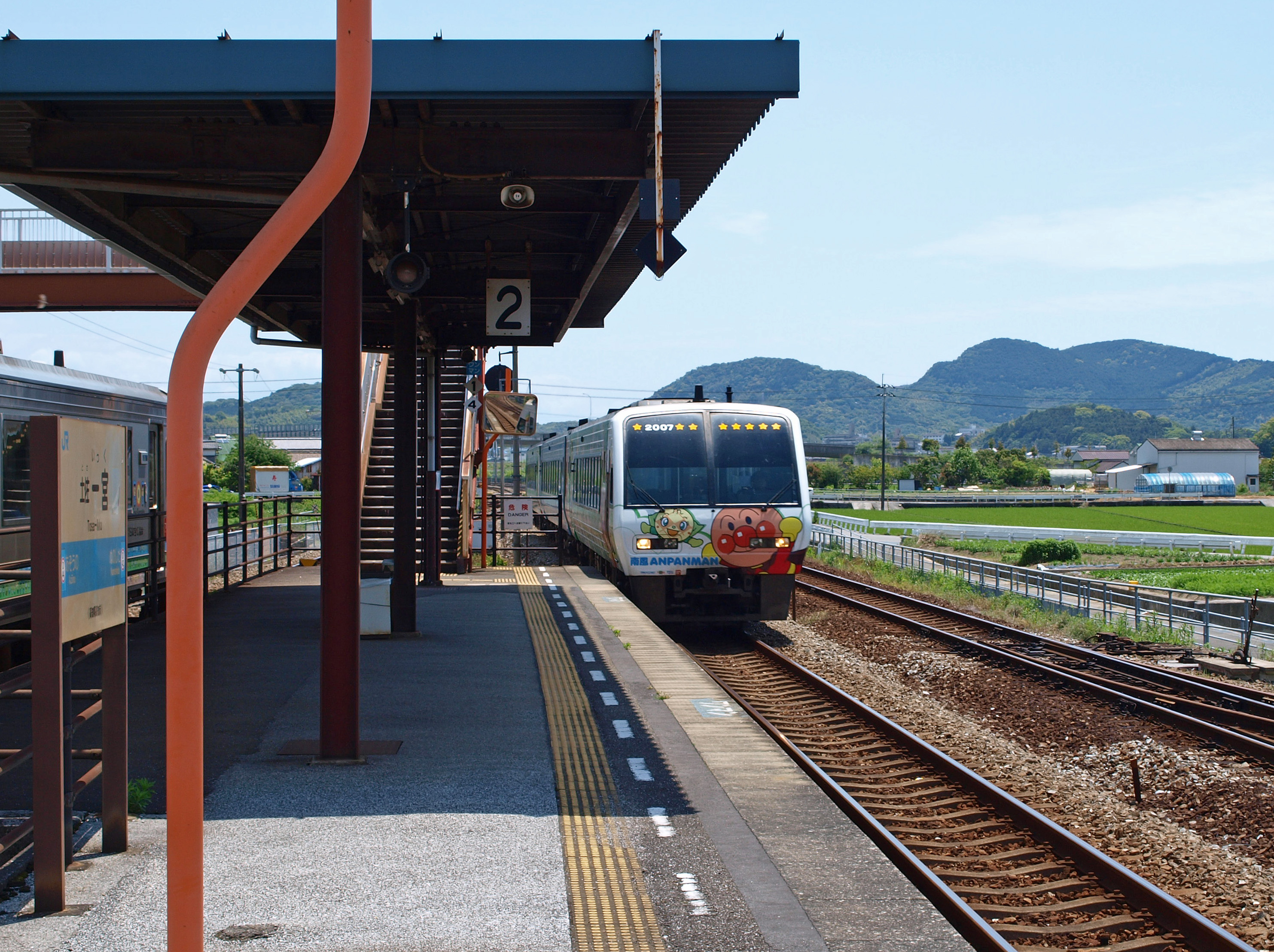 Tosa-Ikku station, Dosan-line, JR Shikoku, Japan